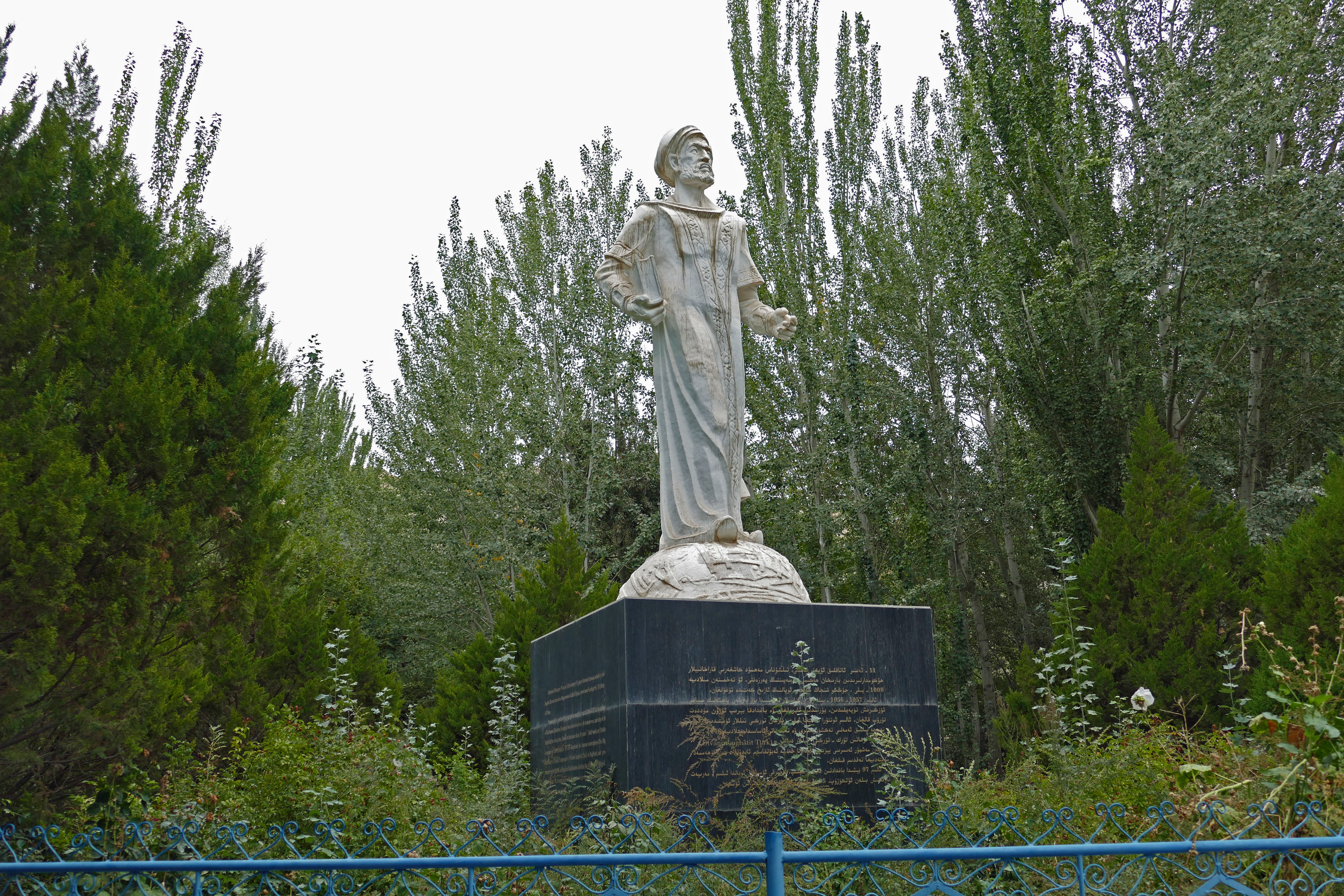 Upal, Mausoleum of Uygur philologist Muhammad Al Kashgari, Monument